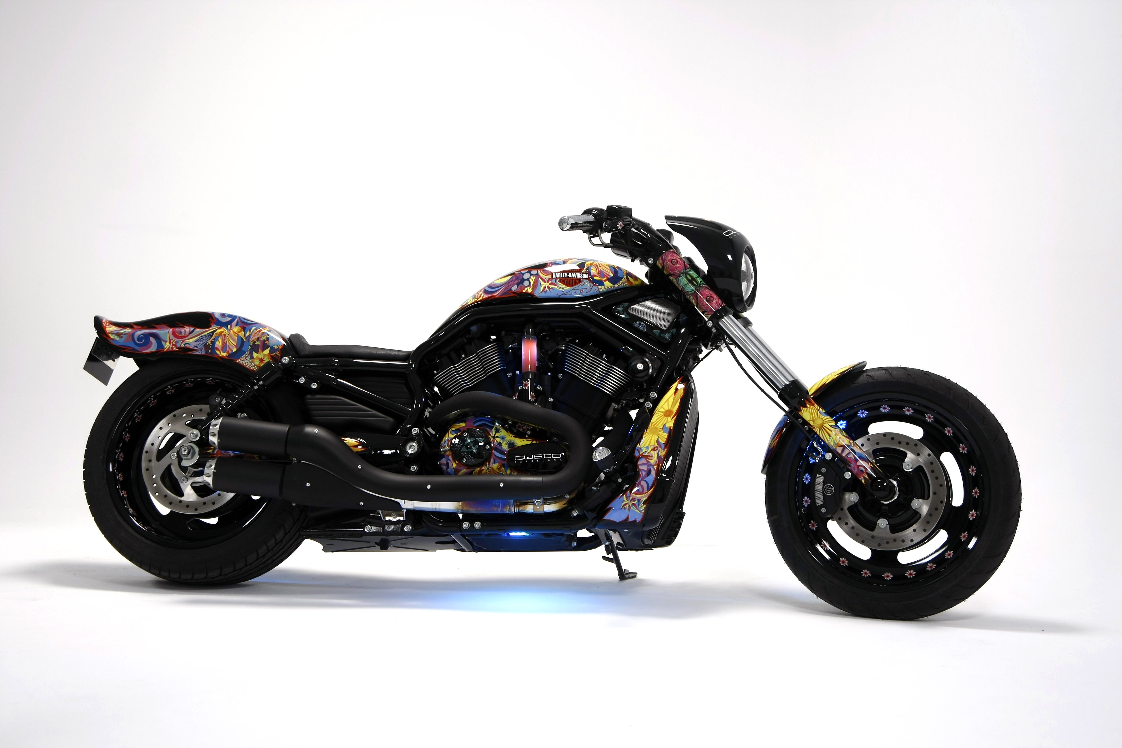 The Brandery show. Área Fashion & Living. Harley-Davidson bike by Custo Barcelona